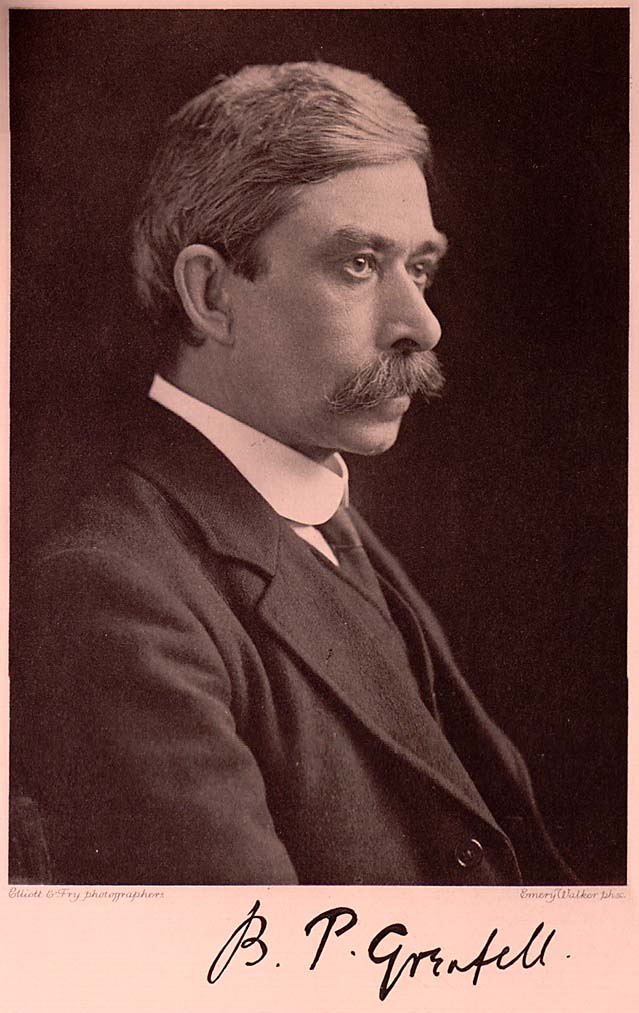 The image is of a photogravure. It was produced by Emery Walker PLC, from a portrait made by Elliot & Fry PLC of 55 Baker St, London (1864-1963). Joseph John Elliott (1835-1903) and Clarence Edmund Fry's (1840-1897) company finally amalgamated with Bassano and Vandyck PLC in 1964 (Michael Pritchard, A directory of London photographers 1841-1908, Watford: PhotoResearch, 1994). The portrait was likely commissioned by Bernard Pyne Grenfell. The signatures of all three parties are visible below the portrait itself. The portrait depicts the subject of the article Bernard Pyne Grenfell, who is a person of public interest. No free replacement can be made because the subject is deceased. Additionally, the company's studio was bombed during WWII, and the majority of the early negatives were destroyed ('Elliott and Fry (floruit 1864-1963)' [Internet], London: National Portrait Gallery, 2004). It is also worthy of note that the picture was probably made prior to 1920. Grenfell was born in 1869, so over 50 years old in 1920. In 1920, a recurrent illness saw him retire to Murray's Royal Mental Hospital, where he spent the remaining six years of his life (Bell HI. 'Bernard Pyne Grenfell'. In JRH Weaver (ed.). Dictionary of National Biography 1922 - 1930. Oxford University Press). The photogravure technique was displaced by more expedient gelatin methods by the 20s. Both Elliot and Fry died over 100 years ago. It is likely that copyright has expired.